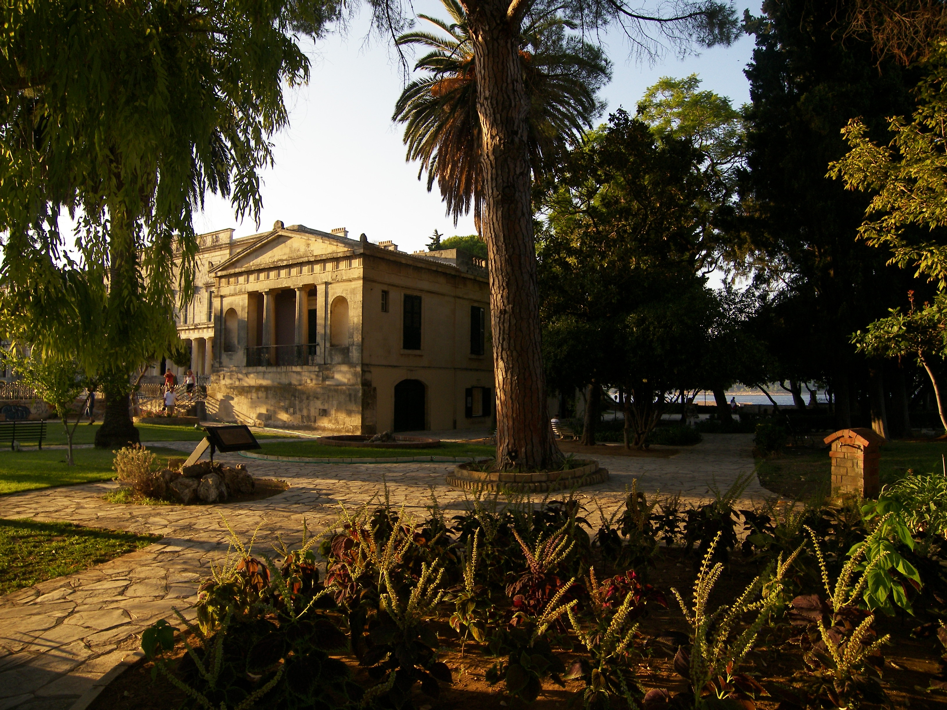 The Garden of the People previously: The Royal Gardens of the Palace of Sts. Michael and George. The place is currently used as an Art Gallery and Café with a view of the Ionian sea at the back of the Gardens. The plaque on the left of the picture commemorates the massacre of the Acqui Division by German forces in 1943.